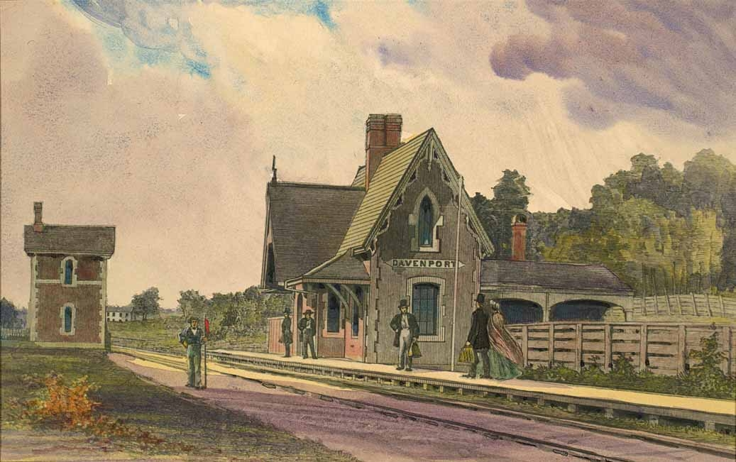 Watercolour derived from a line drawing published in The Canadian Illustrated News in 1863. Built in 1853 as a passenger station for the Ontario, Simcoe and Huron Railway (later Northern Railway), the first railway in Toronto, the Davenport Station was located on Caledonia Park Road just north of Davenport Road.